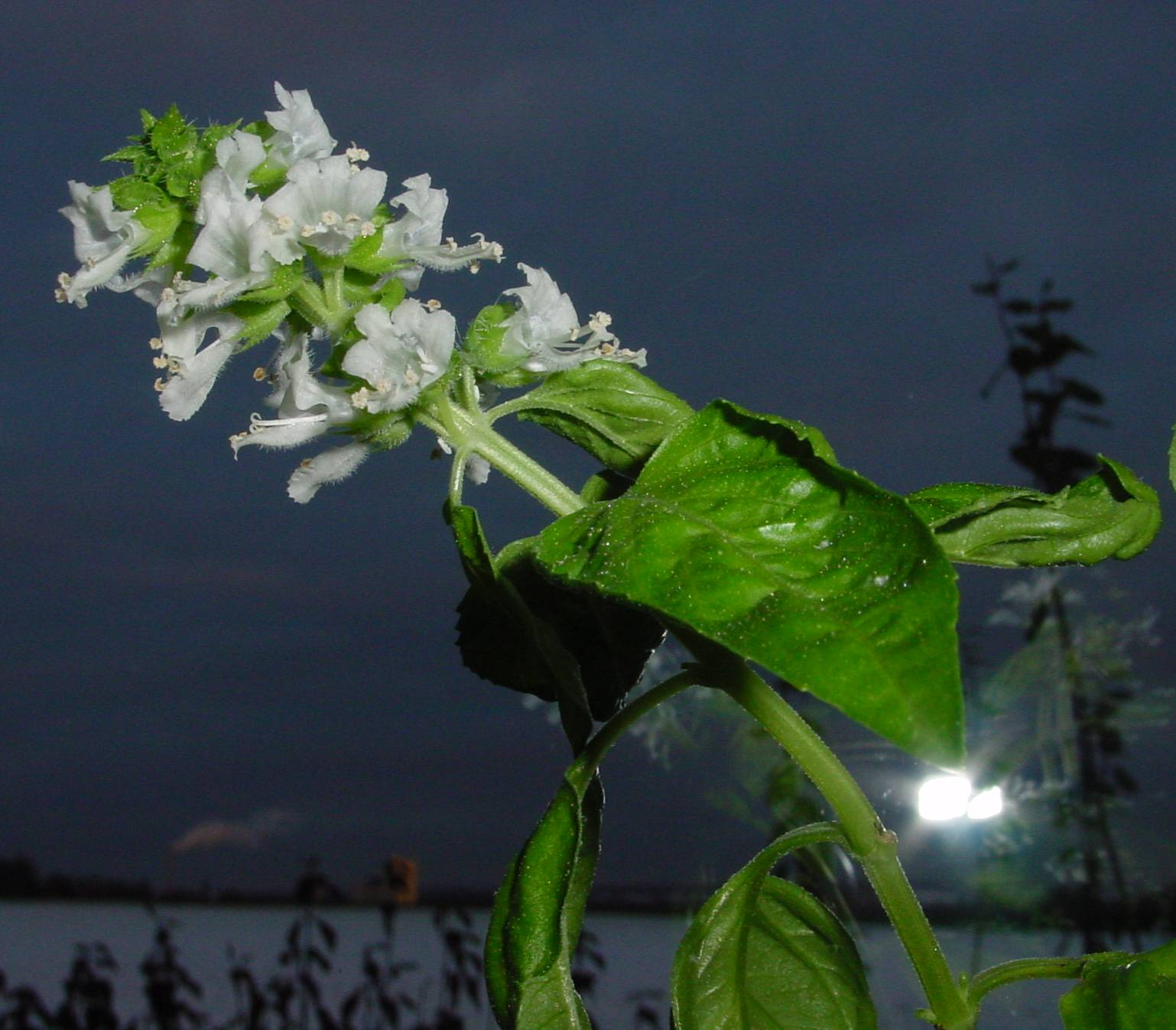 image of Ocimum basilicum (flowers)